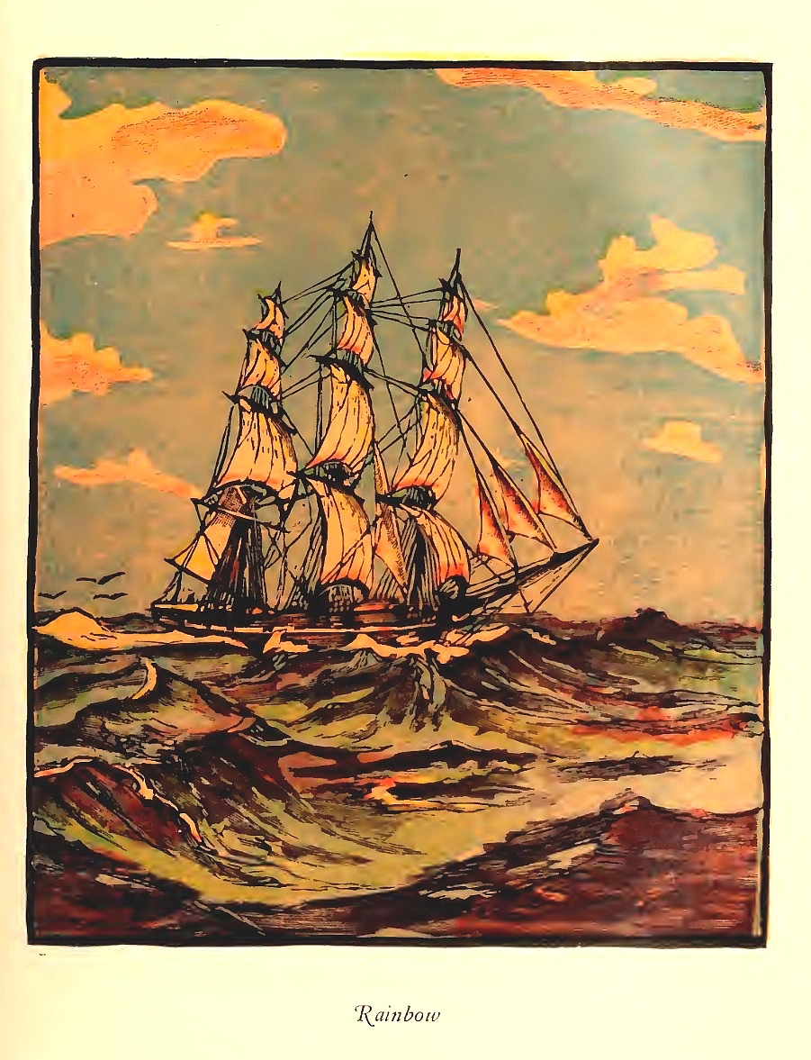 Extreme Clipper Ship Rainbow from Clipper ships of America and Great Britain, 1833-1869; by La Grange, Helen; Lagrange, Jacques